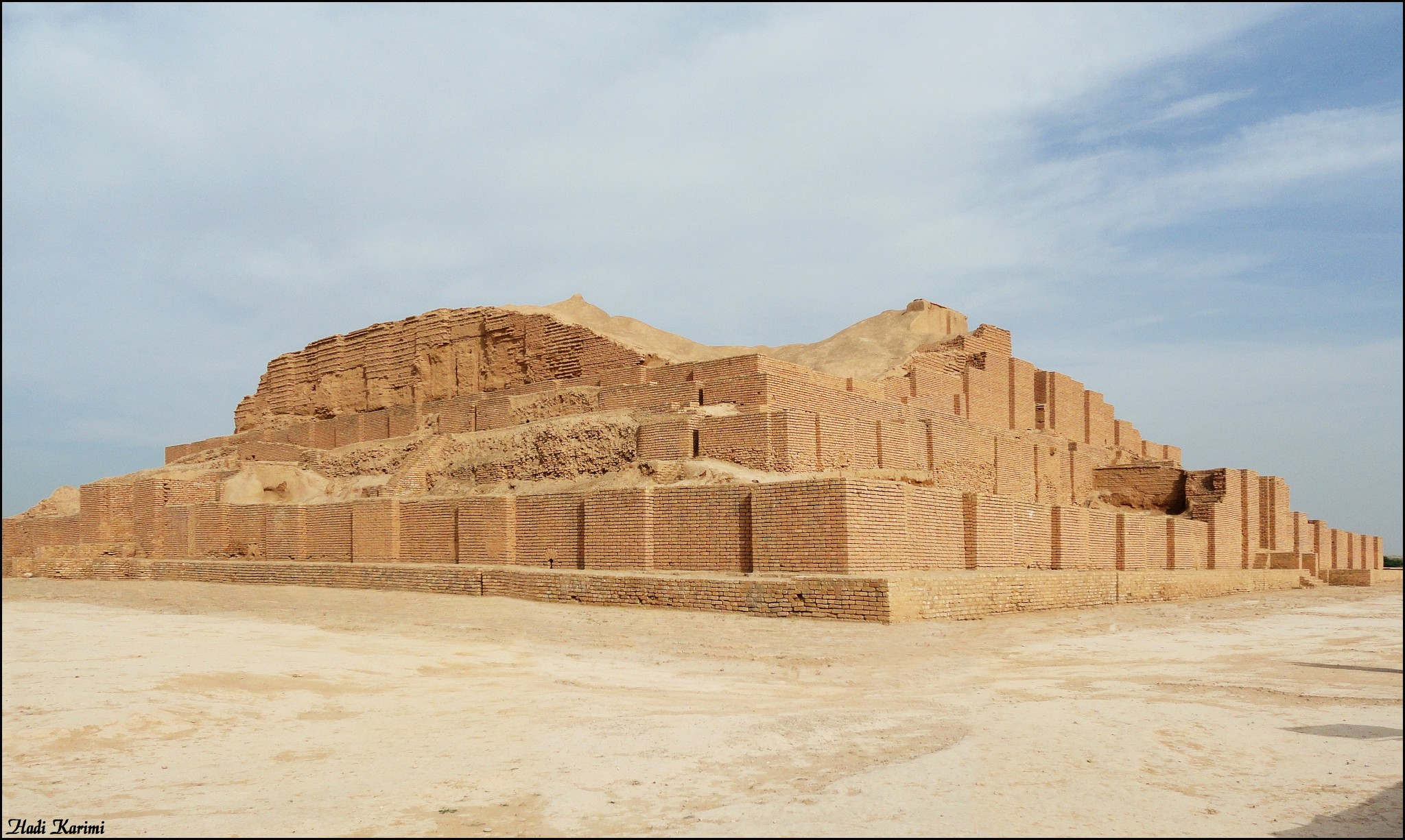 Chogha Zanbil (UNESCO World Heritage Site) چغازنبیل، میراث جهانی یونسکو